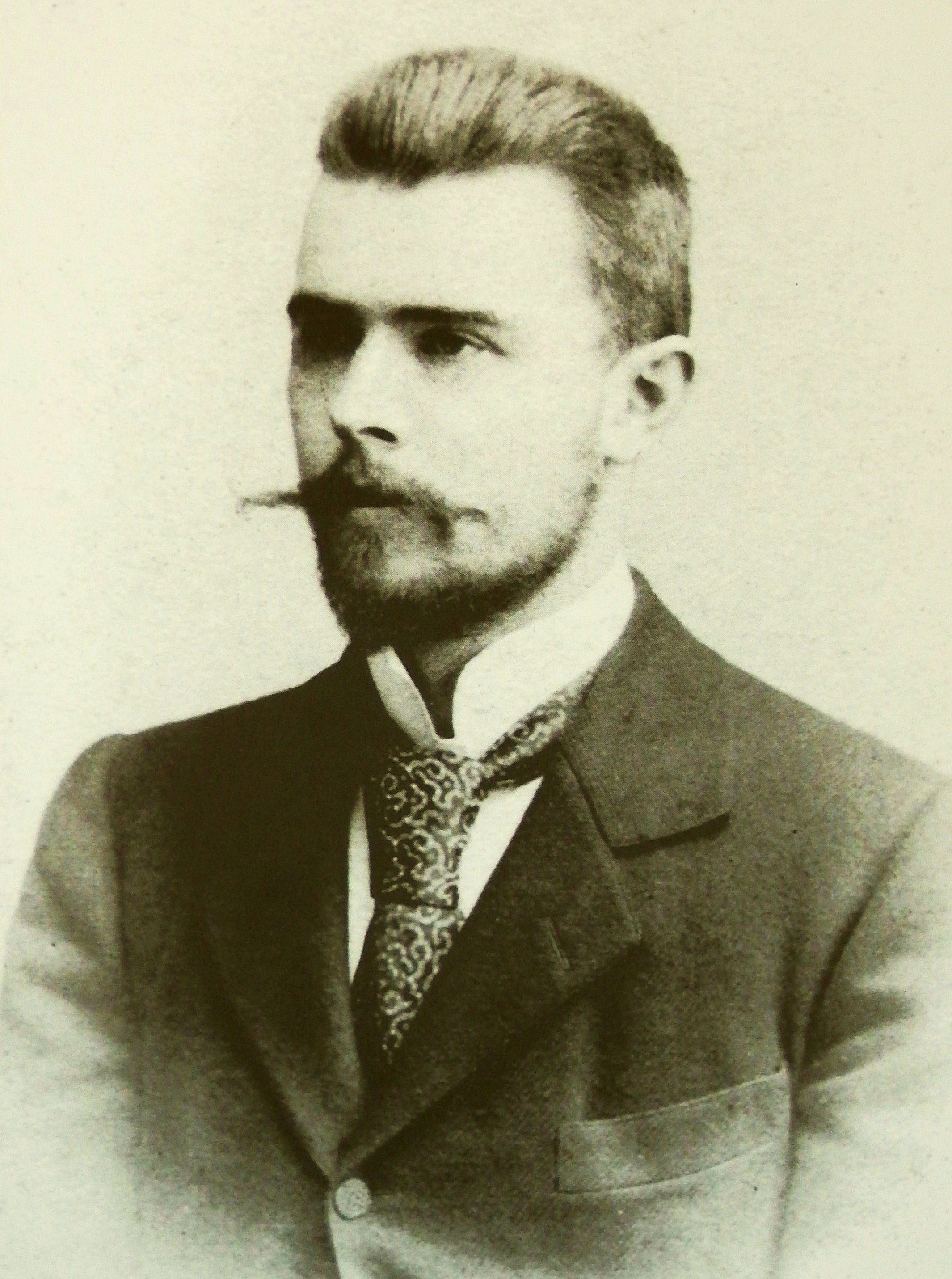 Władysław Sadłowski - Wiedeń 1896